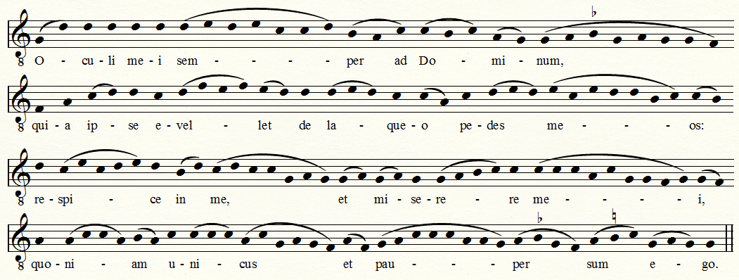 Oculi mei, introitus, example of plainchant (transcribed after Graduale triplex, with some corrections)